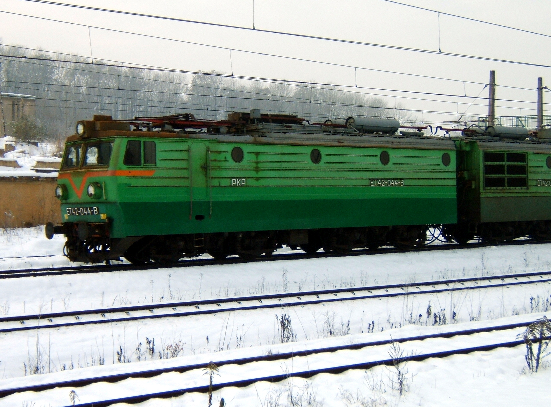 ET42 class electric locomotive.